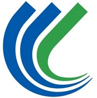 Shinonsen Hyogo chapter